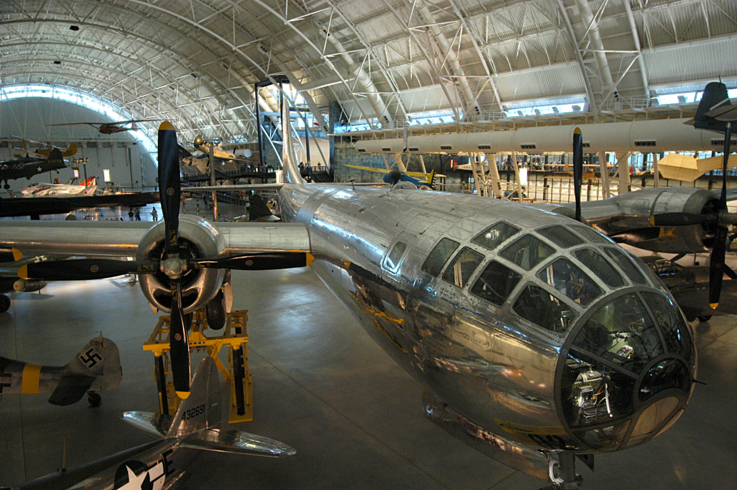 Enola Gay on display at the U.S Air and Space Museum, Steven F. Udvar-Hazy Center.